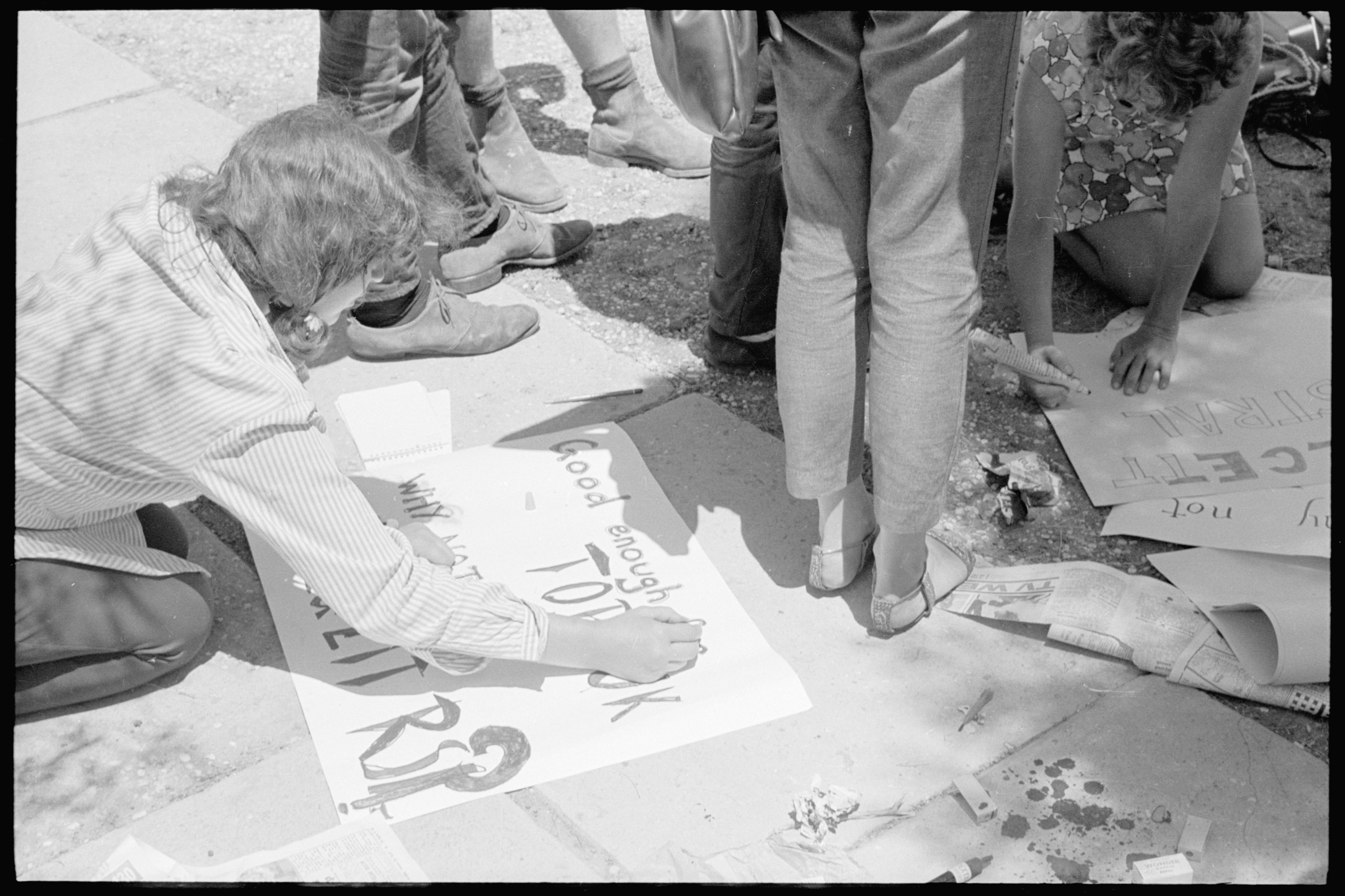 Can you help identify the people and places documented in this photograph? Call Number: ON 161/220 Format: photonegative, 35mm Find more detailed information about this photograph: Search for more great images in the State Library's collections: .au/search/SimpleSearch.aspx For more information about Indigenous Services at the State Library of NSW: Protocols for Libraries and Archives. Further information on the ATSILIRN Protocols is available here .au/protocols.php#_=_ From the collection of the State Library of New South Wales